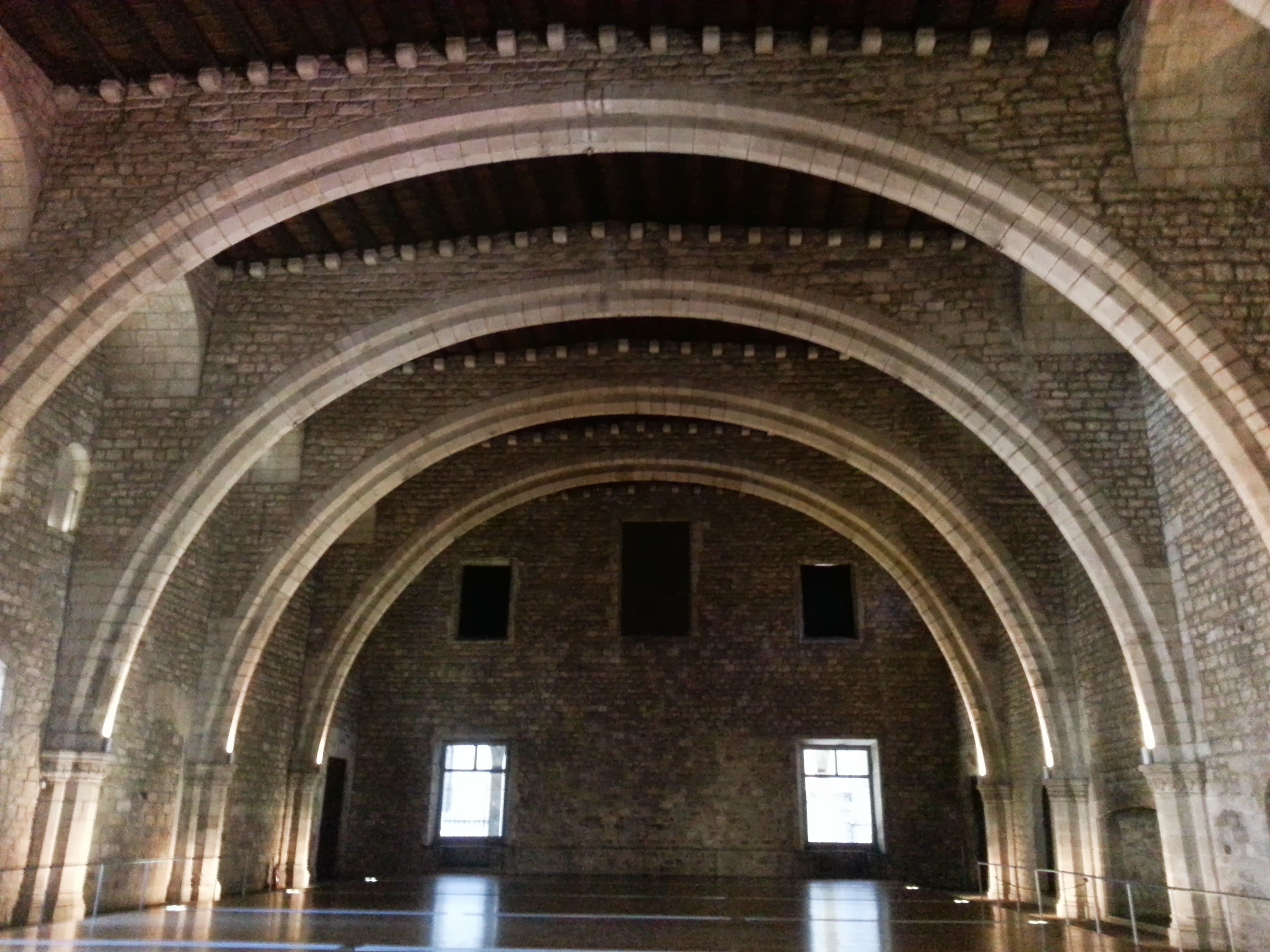 Reception Hall where Christopher Columbus is believed to have been received by Isabella and Ferdinand upon returning from "India"